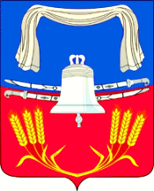 Coat of arms of Novoivanovskaya, Krasnodar Krai, Russia